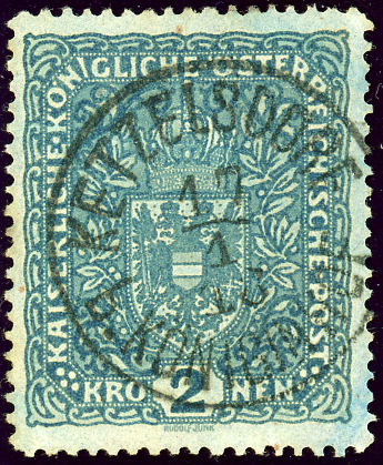 Austrian KK stamp, 2 kronen issue July 1917, cancelled at KETZELSDORF bei KÖNIGINHOF, 17/1/1918, Bohemia